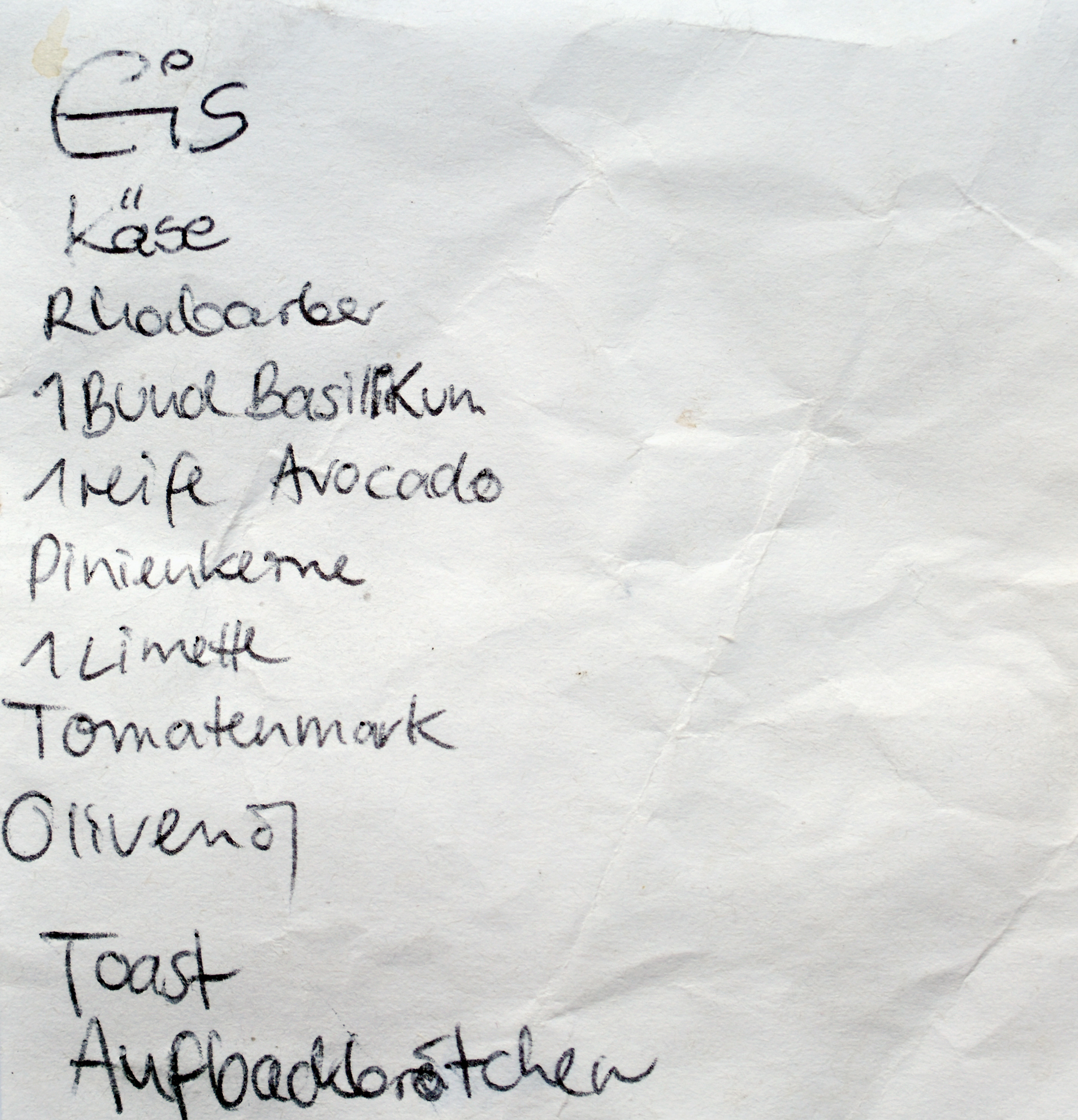 Shopping list